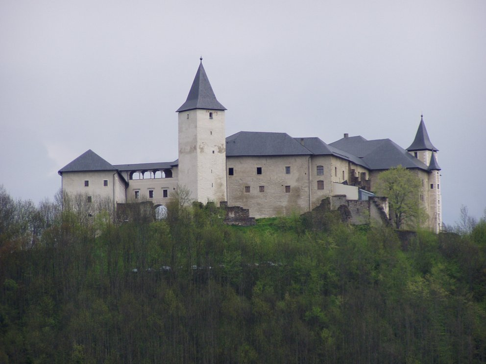 Western view at the bishop`s castle, city Strassburg, district Sankt Veit an der Glan, Carinthia, Austria, EU